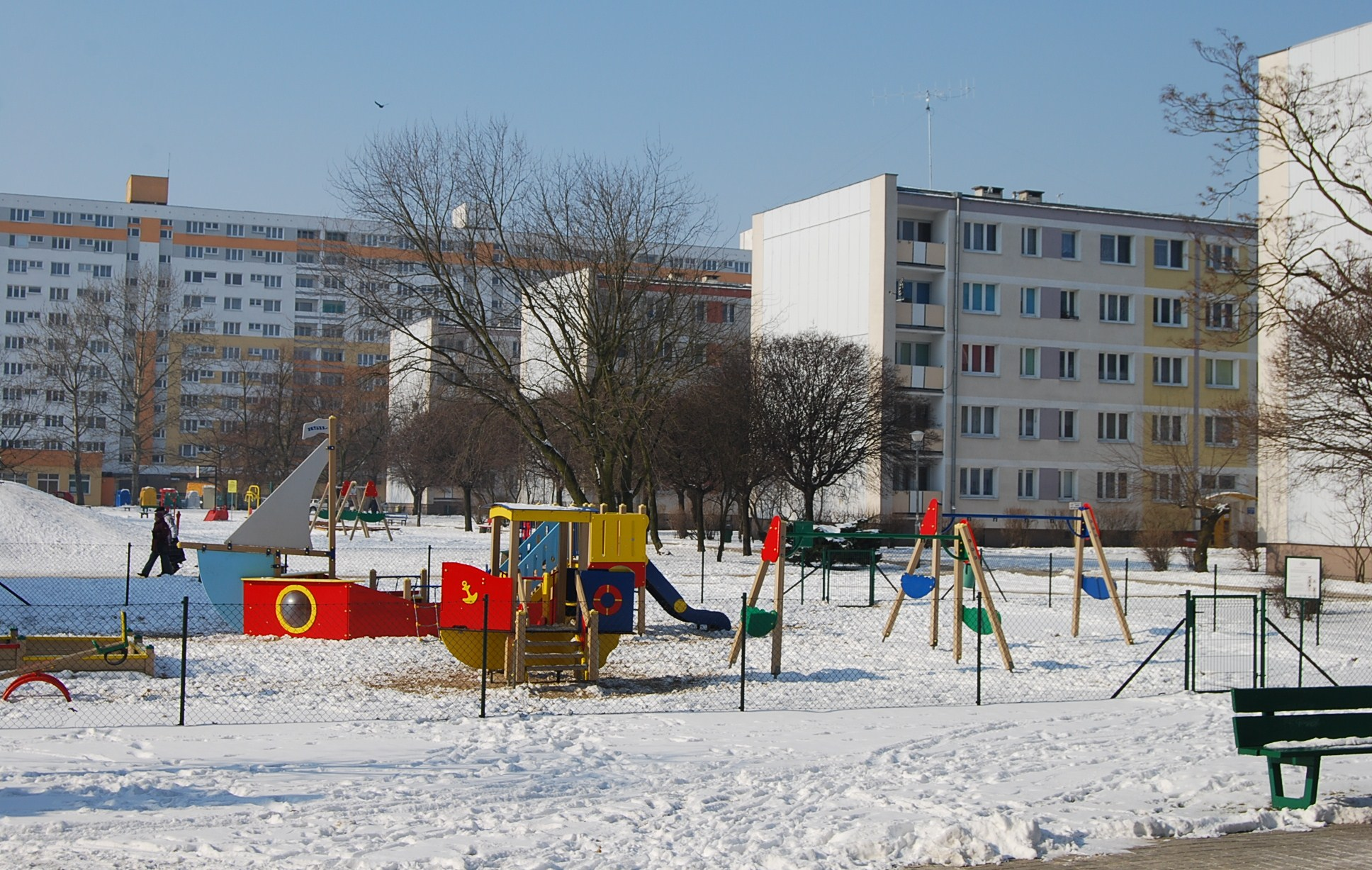 Piastowskie District, Poznan.